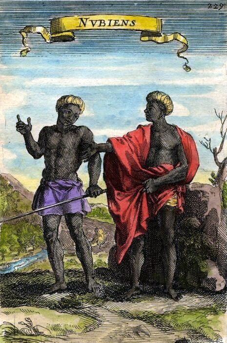 All the maps and views shown here come from different editions (1683-1719) of Mallet; some of them are from translations into German and Italian, and some from later reissues by others, with or without small modifications.